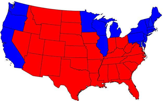 Gastner map redblue byarea bystate